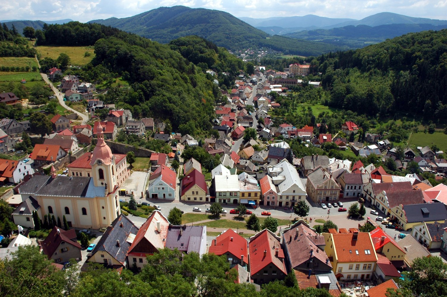 Štramberk, Czech Republic: Overview of the city